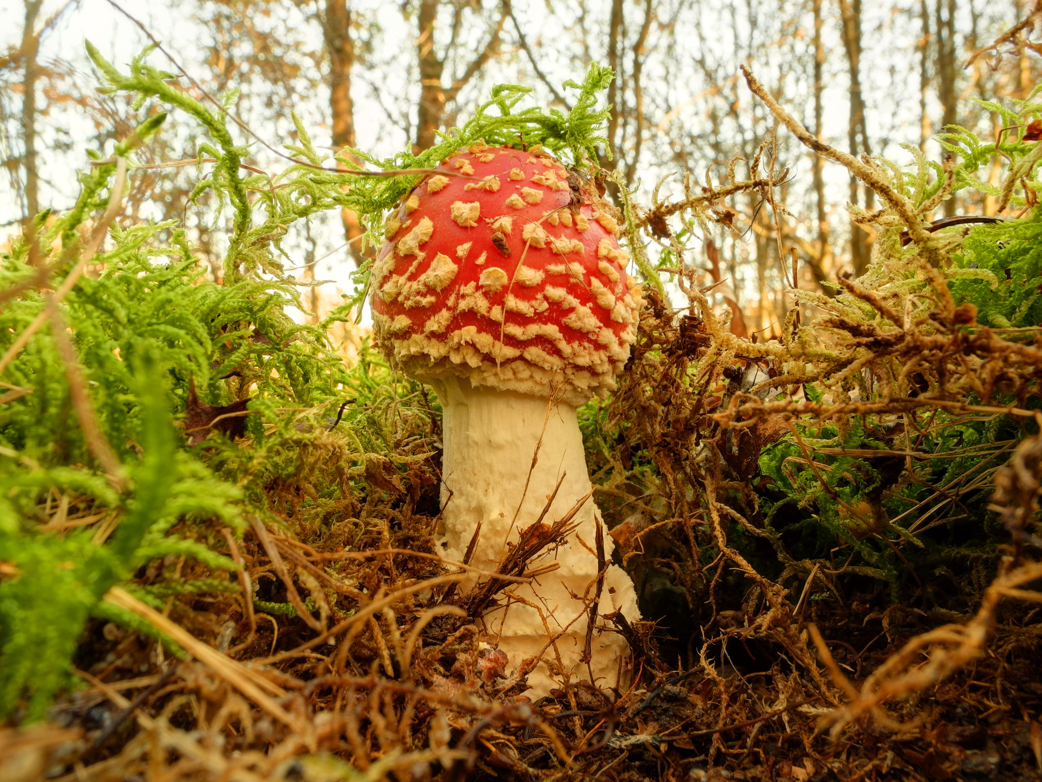 Amanite tue-mouches (Amanita muscaria) (HDR).